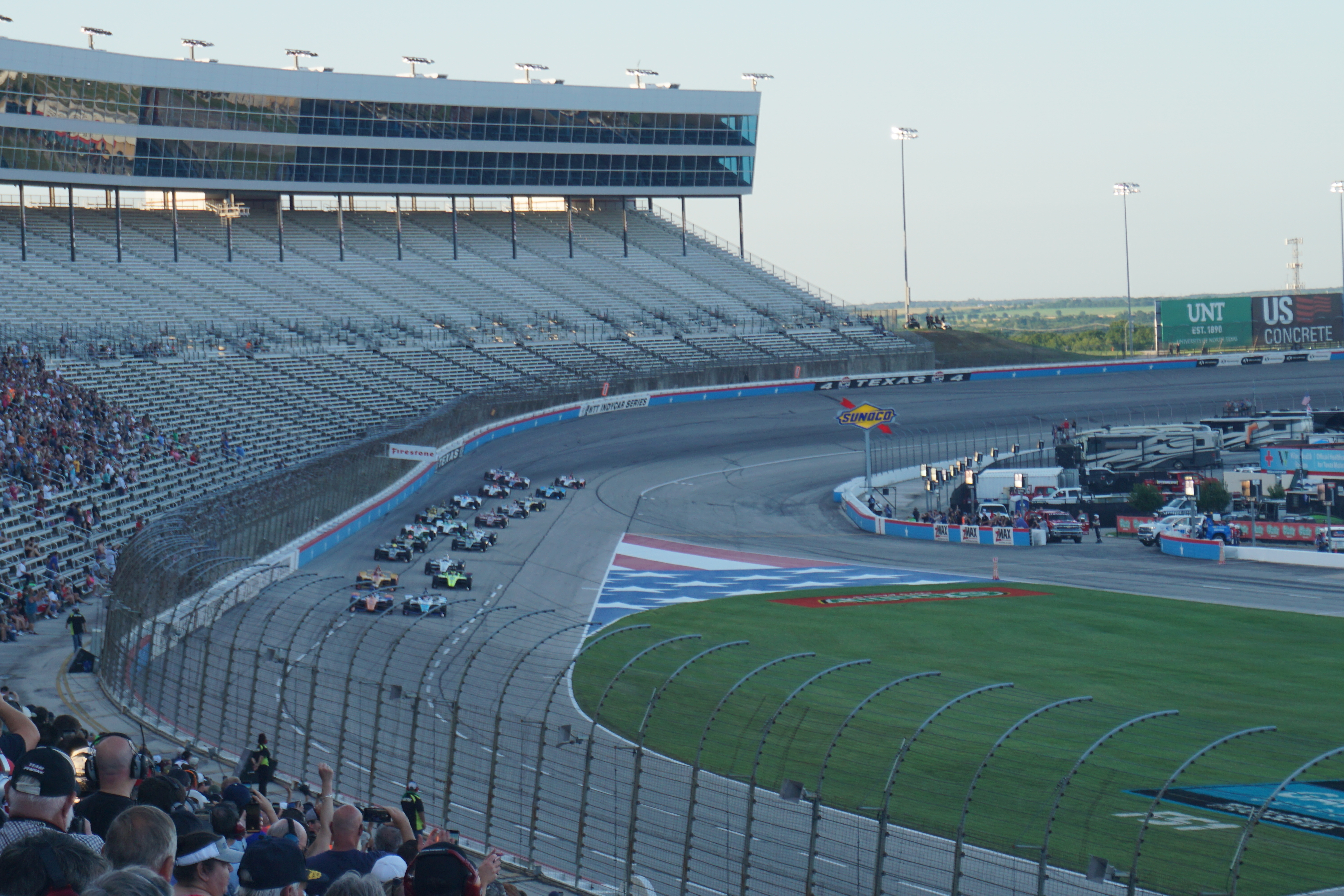 The start of the 2019 DXC Technology 600 at Texas Motor Speedway in Fort Worth, Texas (United States).